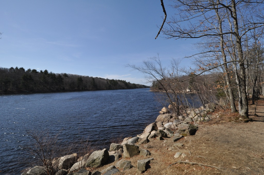 Walden Pond, the main water body in the Lynn Woods Reservation.